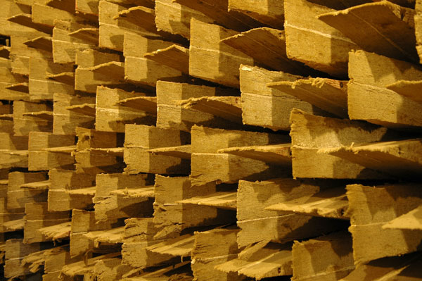 sound absorbers